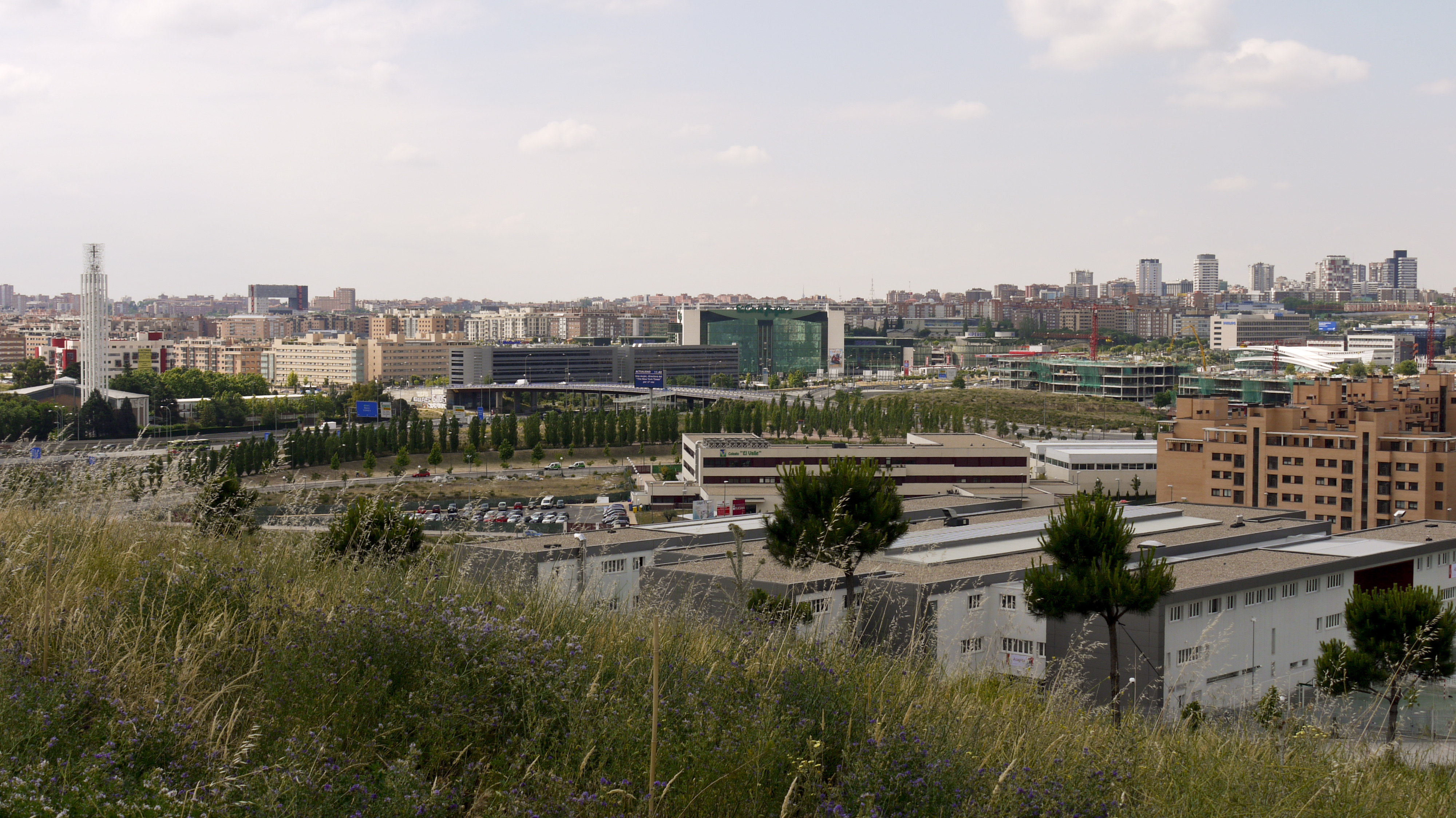 View of Sanchinarro, Madrid, seen from Las Tablas. Spain. In the middle Supermercado Corte Ingles Sanchinarro, to the left the Edificio Mirador building.